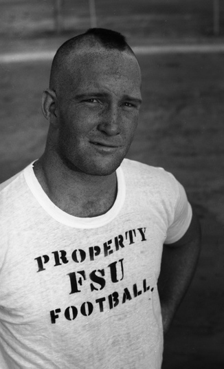 FSU football player Red Dawson in Tallahassee.